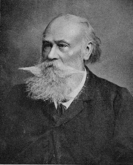 Karkl Blind.